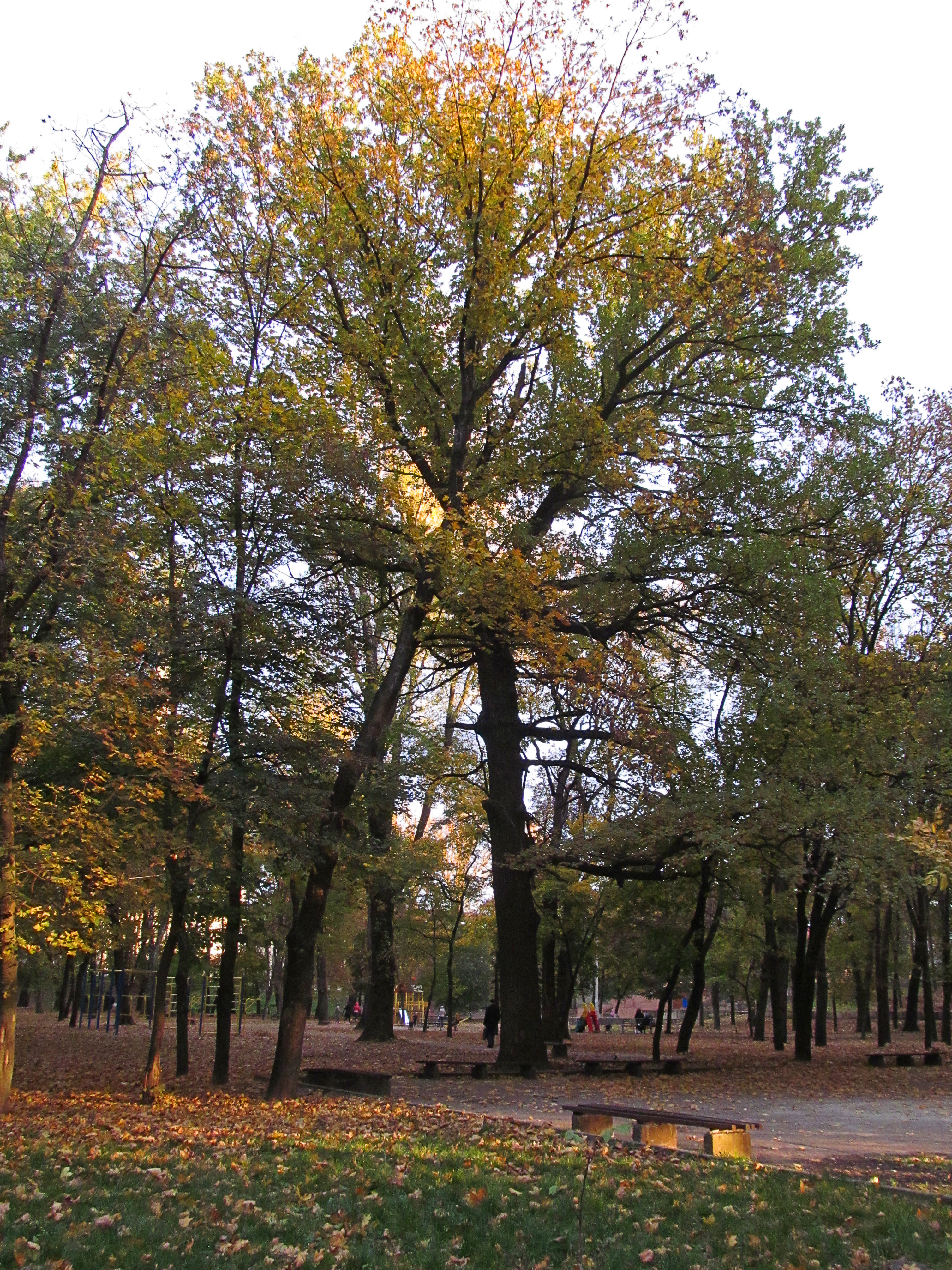 Kvitka-Osnovyanenko Park in Kharkiv, Ukraine. An old oak.